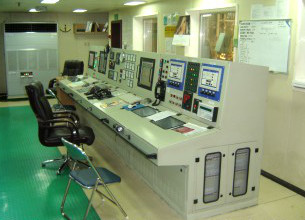 {| class="licensetpl" style="display:none" | |}